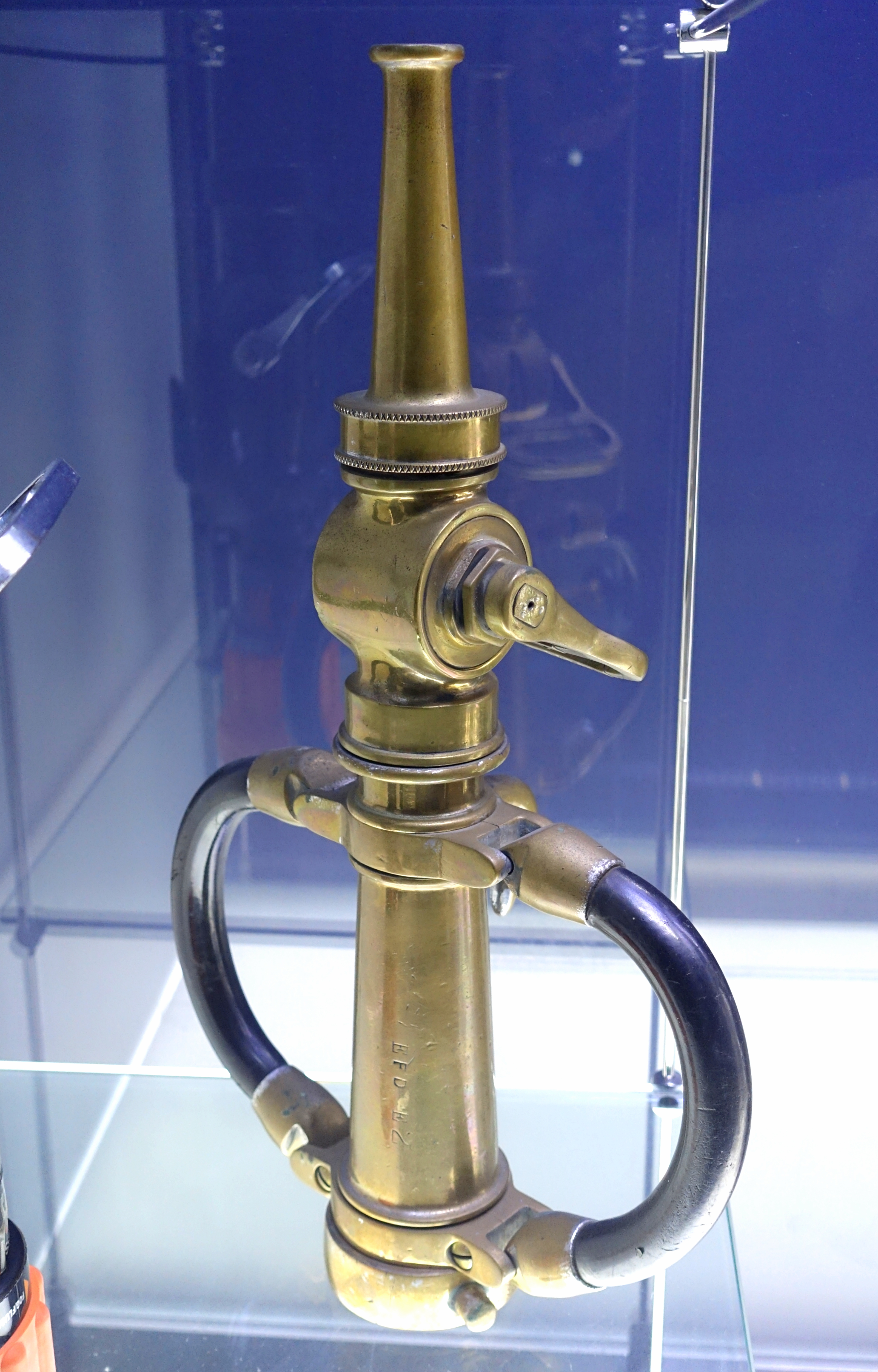 Exhibit in the Museum of Science and Industry, Chicago, Illinois, USA.